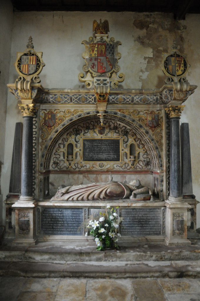 Monument to Lady Elizabeth Seymour (1552 – 3 June 1602), wife of Sir Richard Knightley, of Fawsley, Northamptonshire, a daughter of Edward Seymour, 1st Duke of Somerset KG (c. 1500[2] – 22 January 1552) (also 1st Earl of Hertford, 1st Viscount Beauchamp), the elder brother of Queen Jane Seymour (d. 1537), the third wife of King Henry VIII.